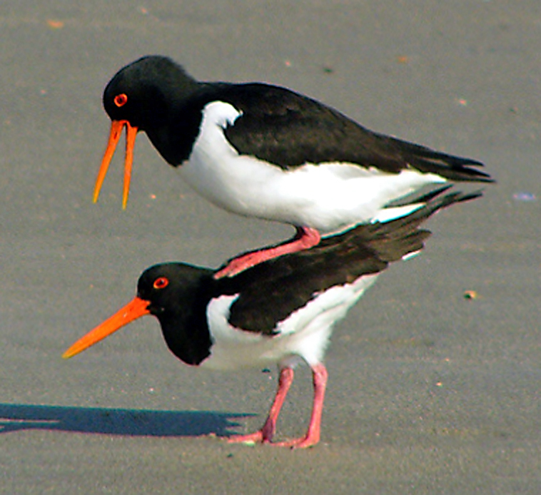 Eurasian Oystercatcher, Heligoland Düne